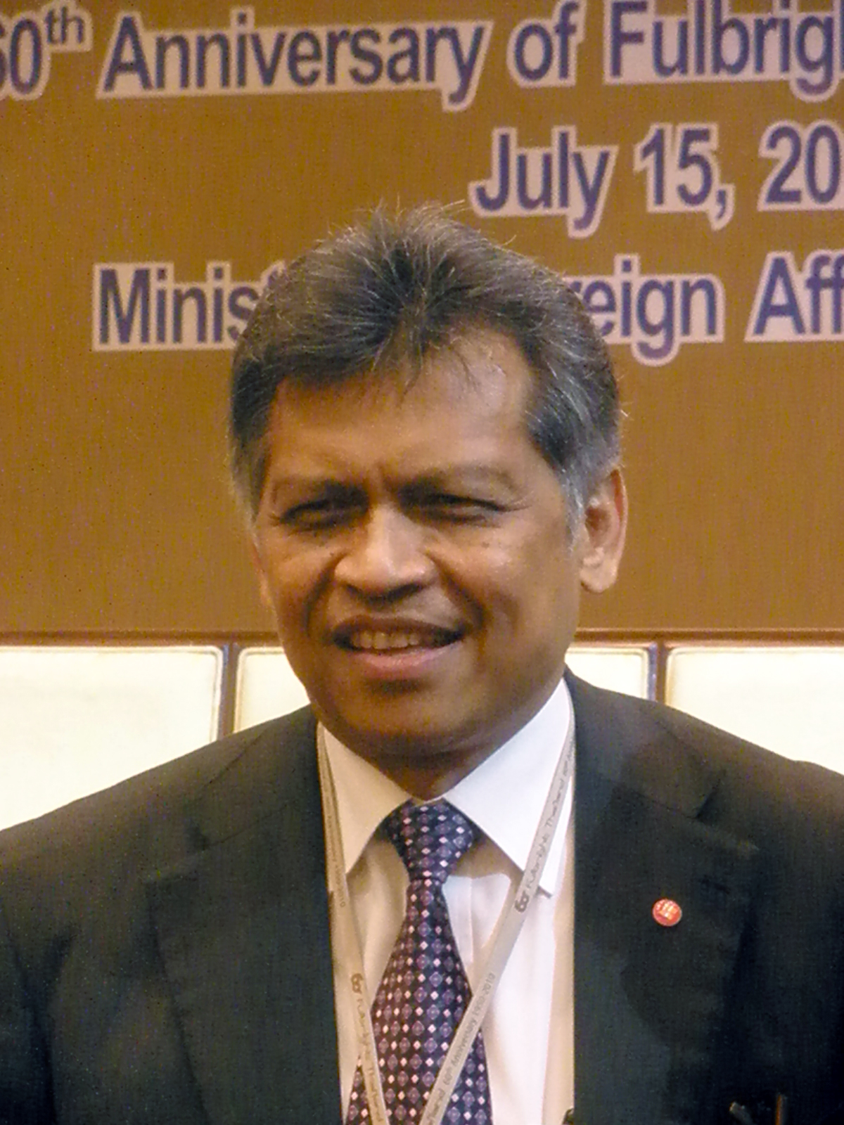 Dr Surin Pitsuwan, Secretary-General of the Association of Southeast Asian Nations (ASEAN), speaker in Fulbright Thailand : International Symposium at Ministry of Foreign Affairs, Bangkok, Thailand on 15th July, 2010 [By A. Aruninta]